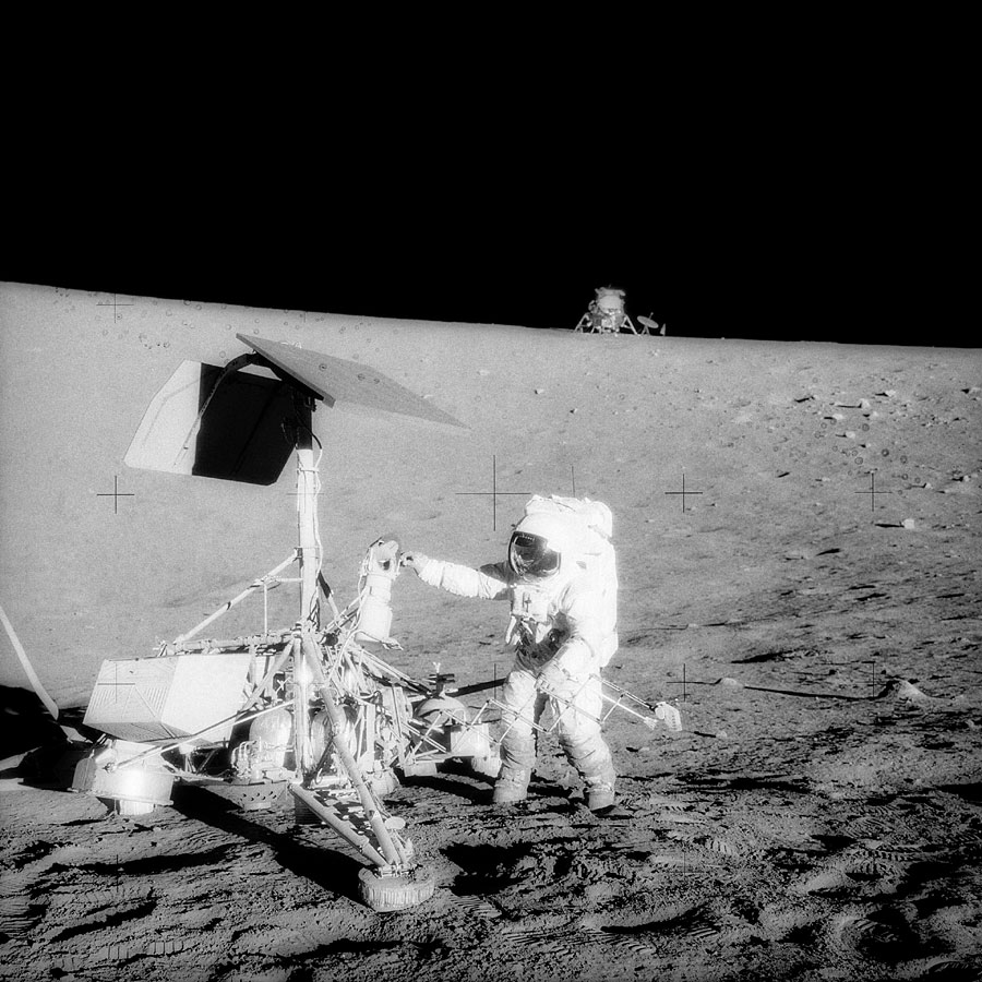 NASA photo of the Surveyor 3 probe, being visited by astronaut Conrad of Apollo 12 (visible in background)